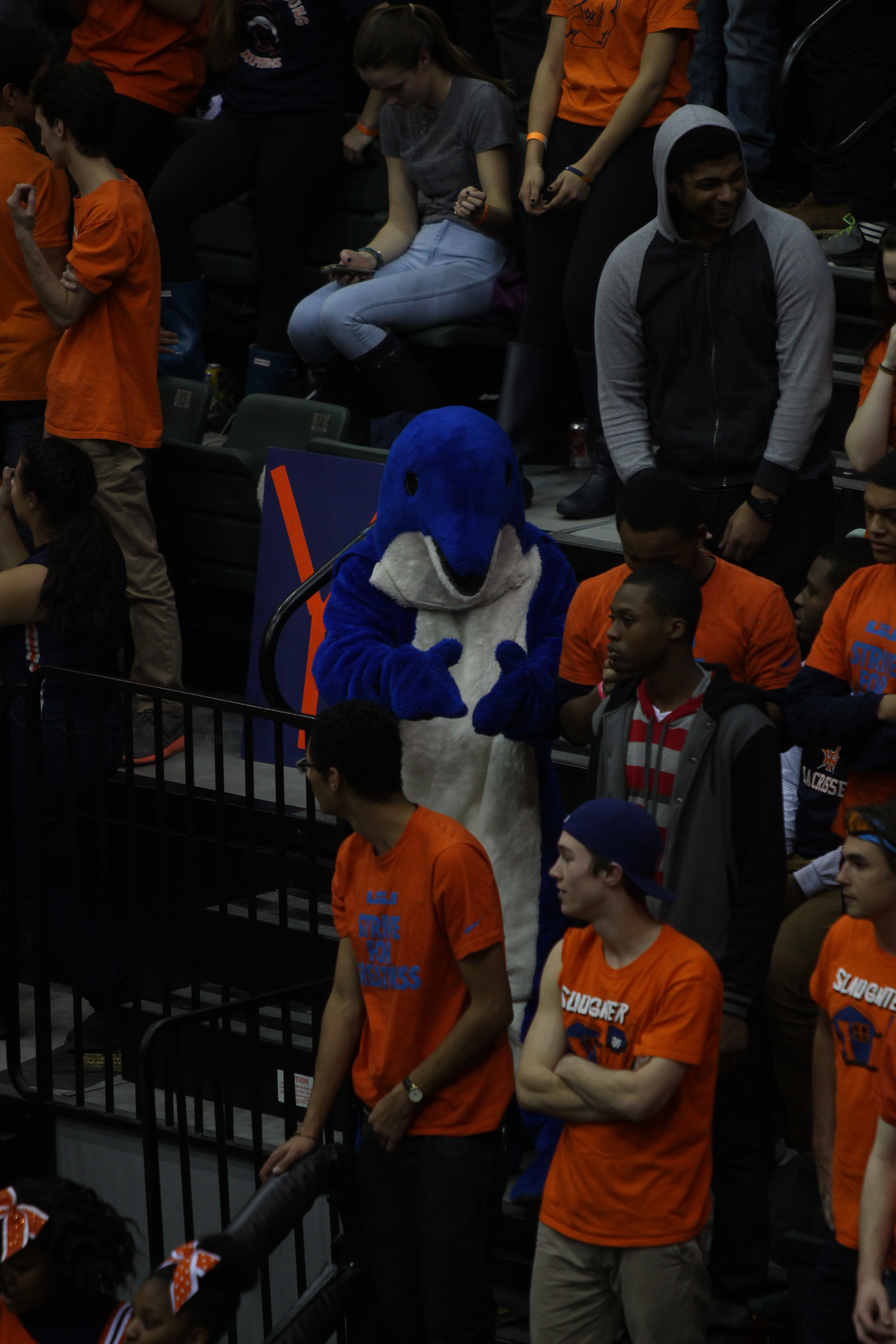 Whitney Young Magnet High School Dolphin mascot at the 2014 Chicago Public High School League championship game